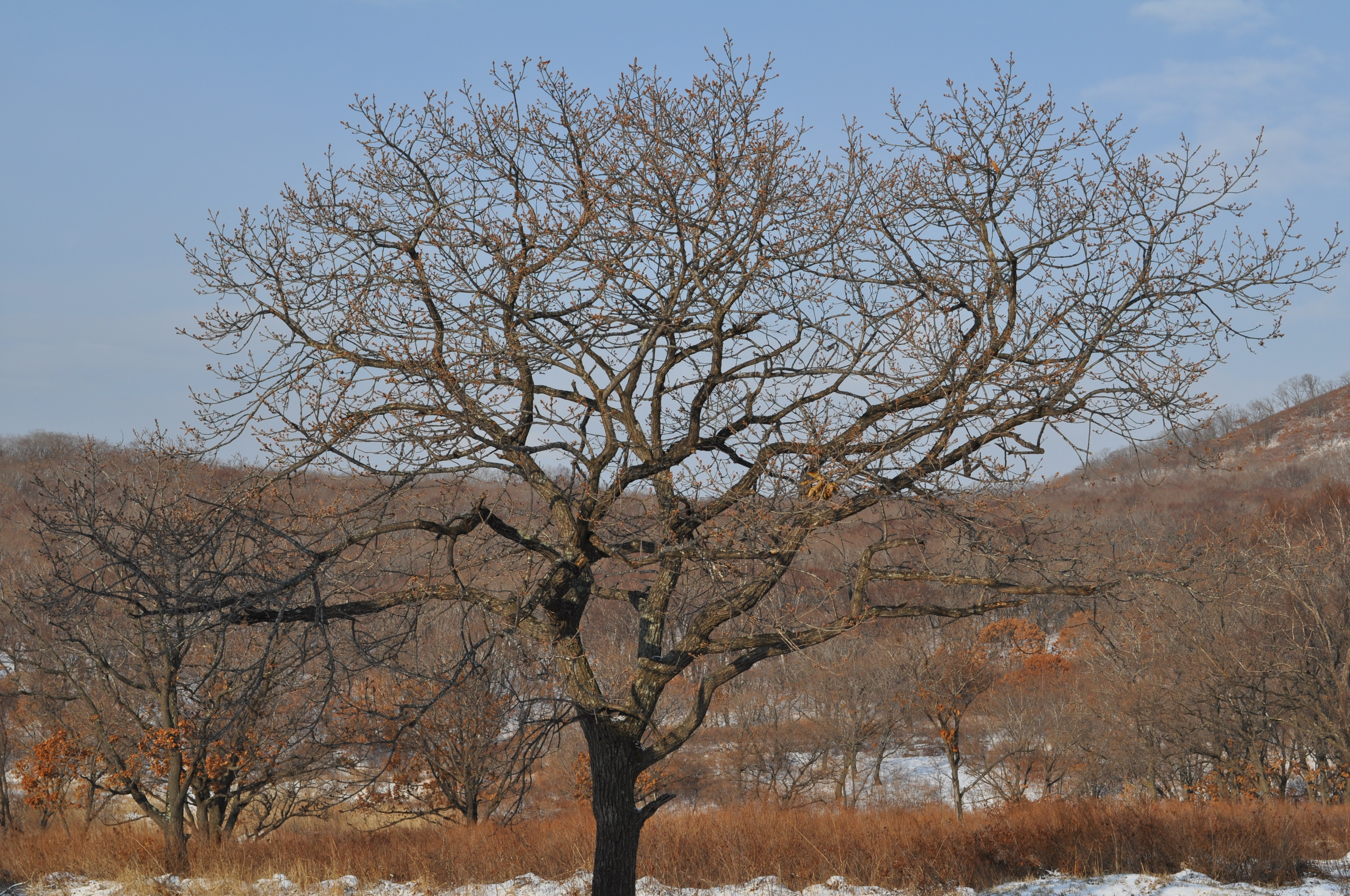 The Mongolian Oak (Quercus mongolica) in December 2009. Suburb of Nakhodka, Southern Sihote-Alin.